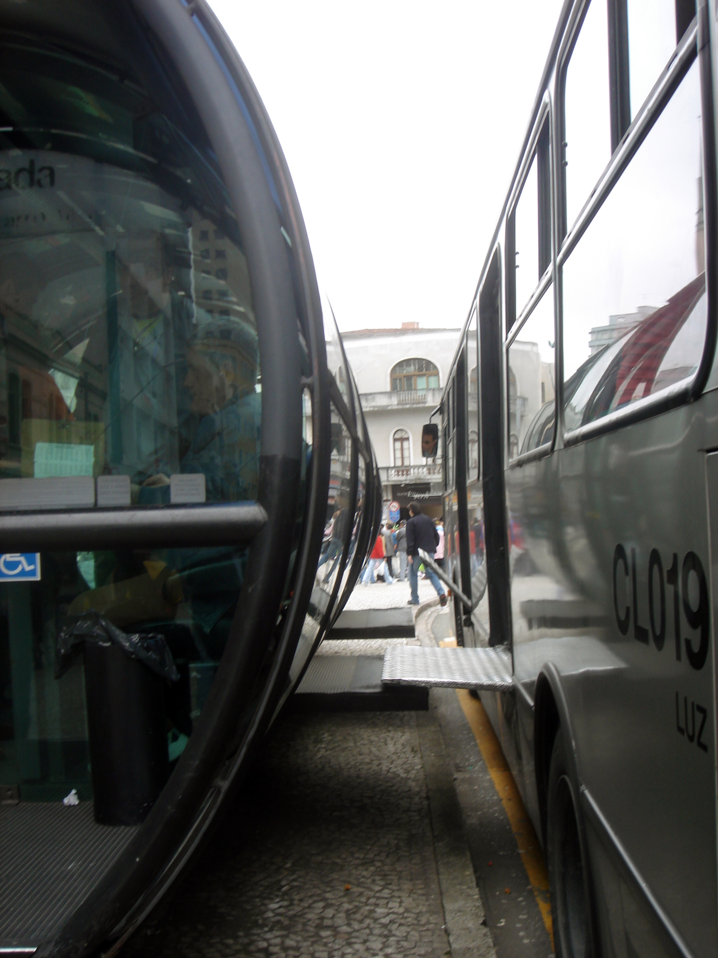 Bus (#CL019) in Curitiba, Brazil.